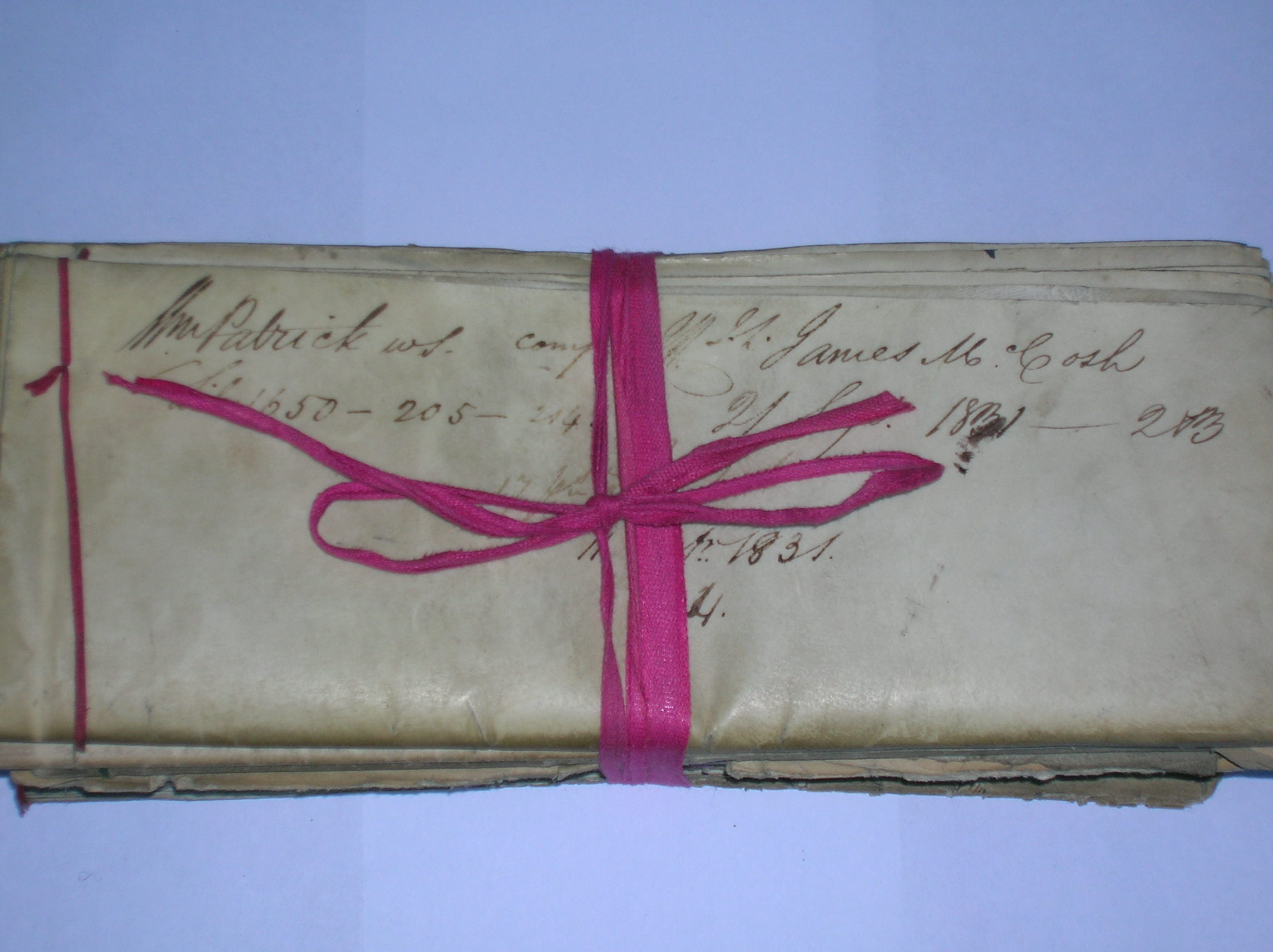 19th Century legal documents bound with lawyers red tape.